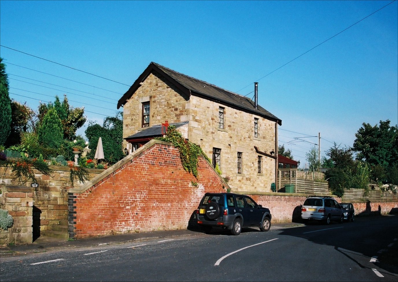 The former stationmaster's house at Garstang and Catterall railway station in Lancashire, England. The station building was immediately to the right, with rooms at platform level supported by arches underneath. The surviving stone steps led to a second flight of wooden stairs to the platform.